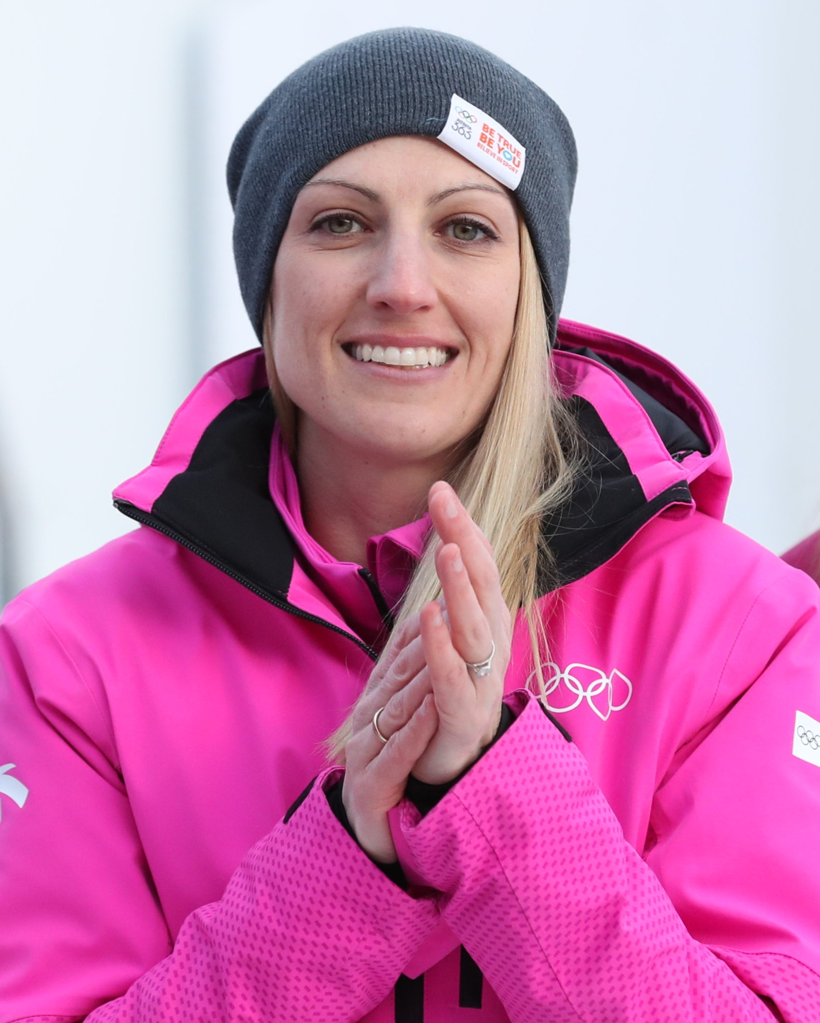 Mascot Ceremony Women's Monobob at the 2020 Winter Youth Olympics in Lausanne